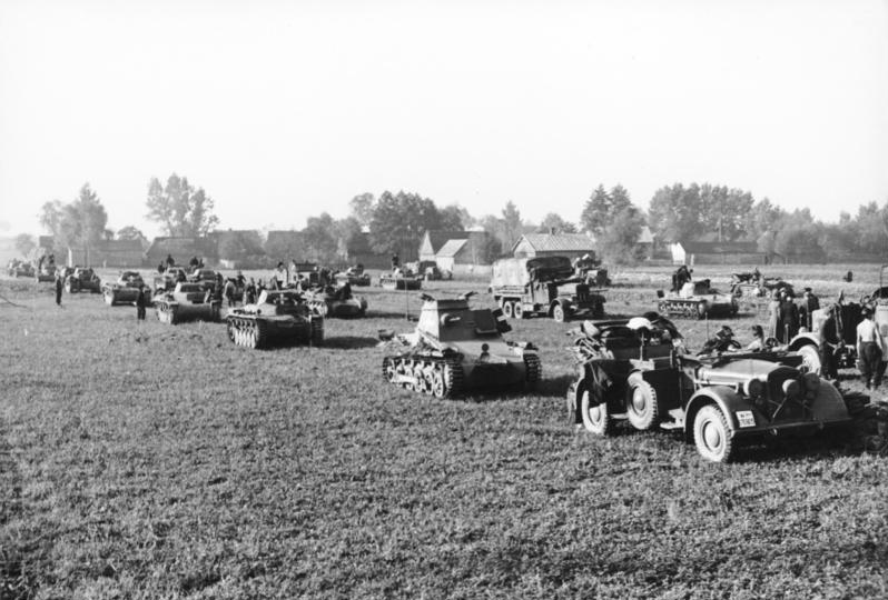 "Poland.- Group of tanks, cars and trucks standing in a meadow behind a village. A car at the front, behind that a Befehlspanzer 1 Ausf. B [command tank] based on the Panzer I, behind that Panzer IIs; KBK Lw [Kriegsberichter Kompanie Luftwaffe, "Luftwaffe war-reporting company"] 1"